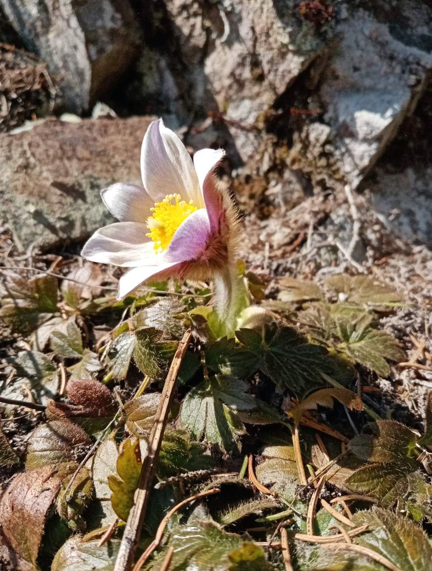 Pulsatilla vernalis var. alpestris in Obří důl valley, Krkonoše mountains, Czech republic